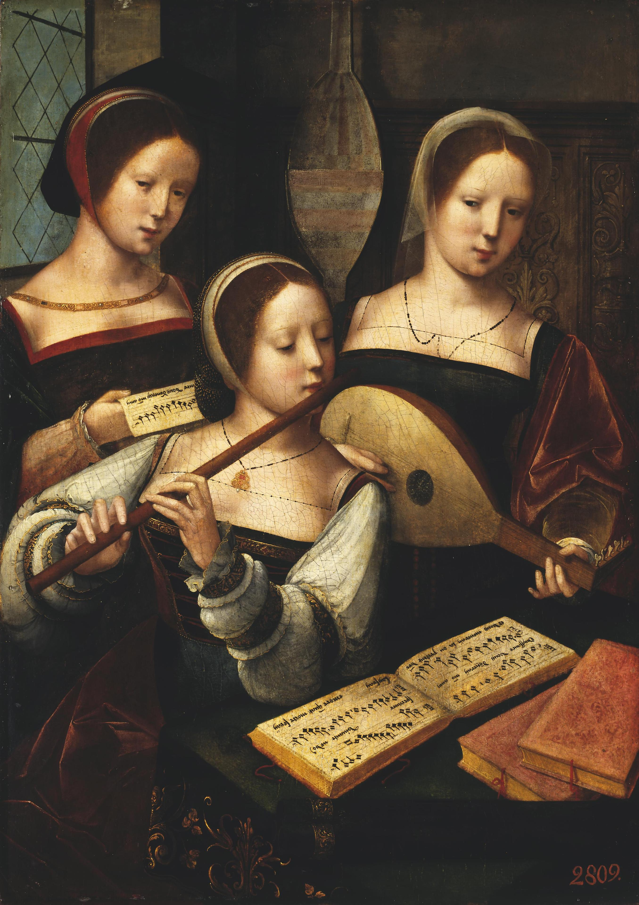 Three female Musicians playing the poem 'Jouissance vous donneray' by Clément Marot, music by Claudin de Sermisy